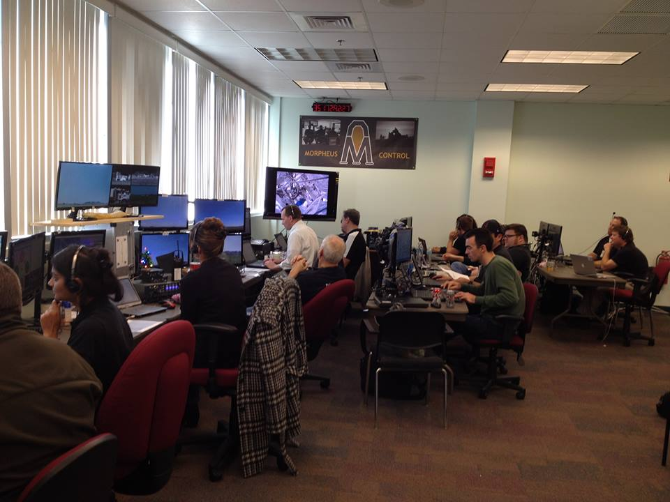 The Morpheus Control Room preparing to launch the lander; Kennedy Space Center, Florida.